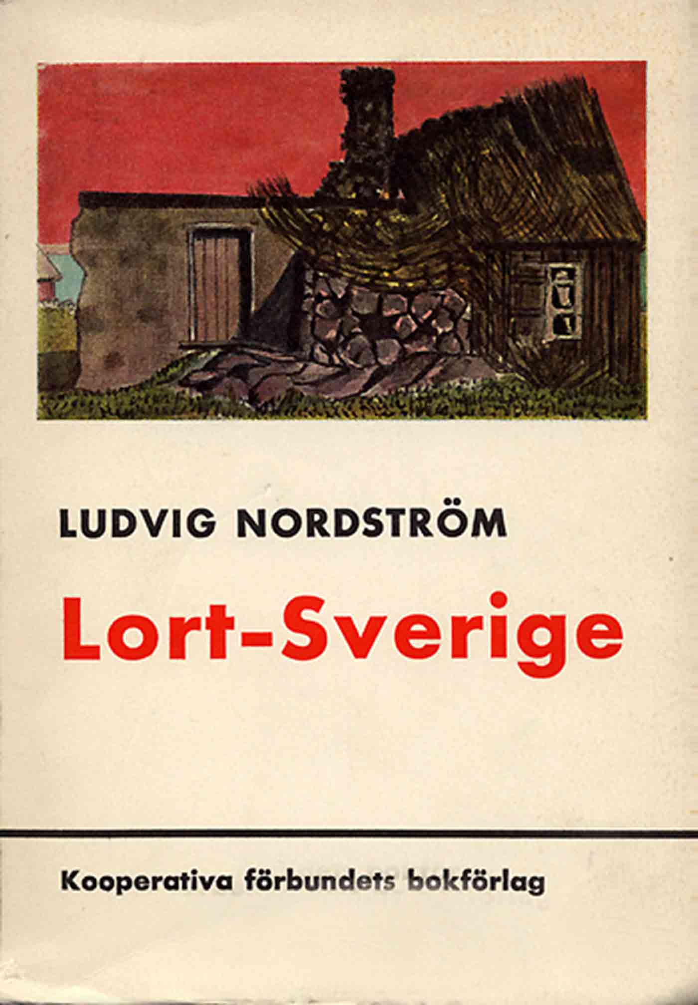 Book-cover for "Lort-Sverige" with illustration by the author